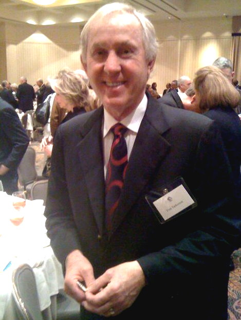 The Pro Football Hall of Fame member and Atlanta businessman after a speech by Gen. David Petraeus in Atlanta, Jan. 2010.